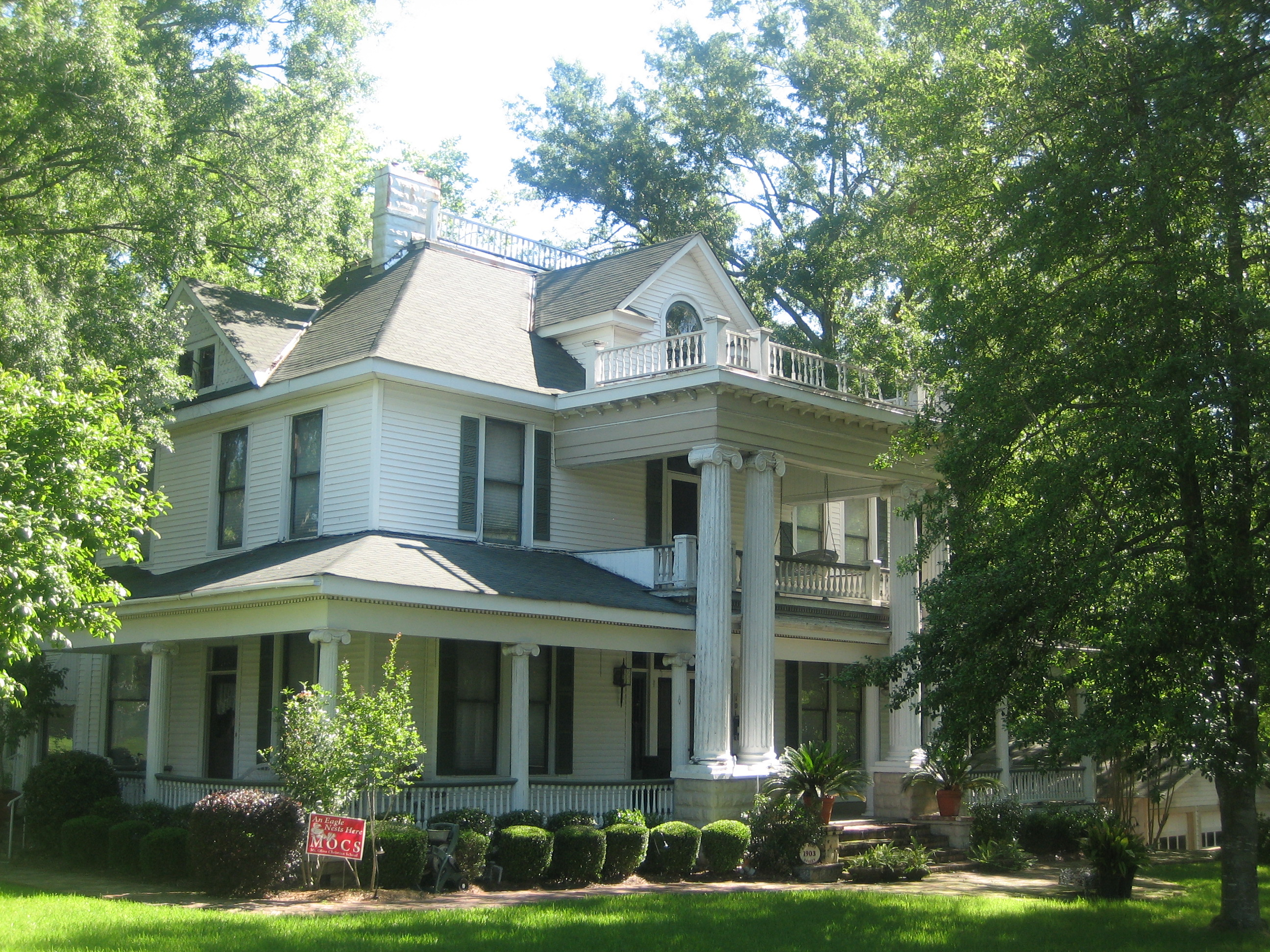 I took photo on May 20, 2009.